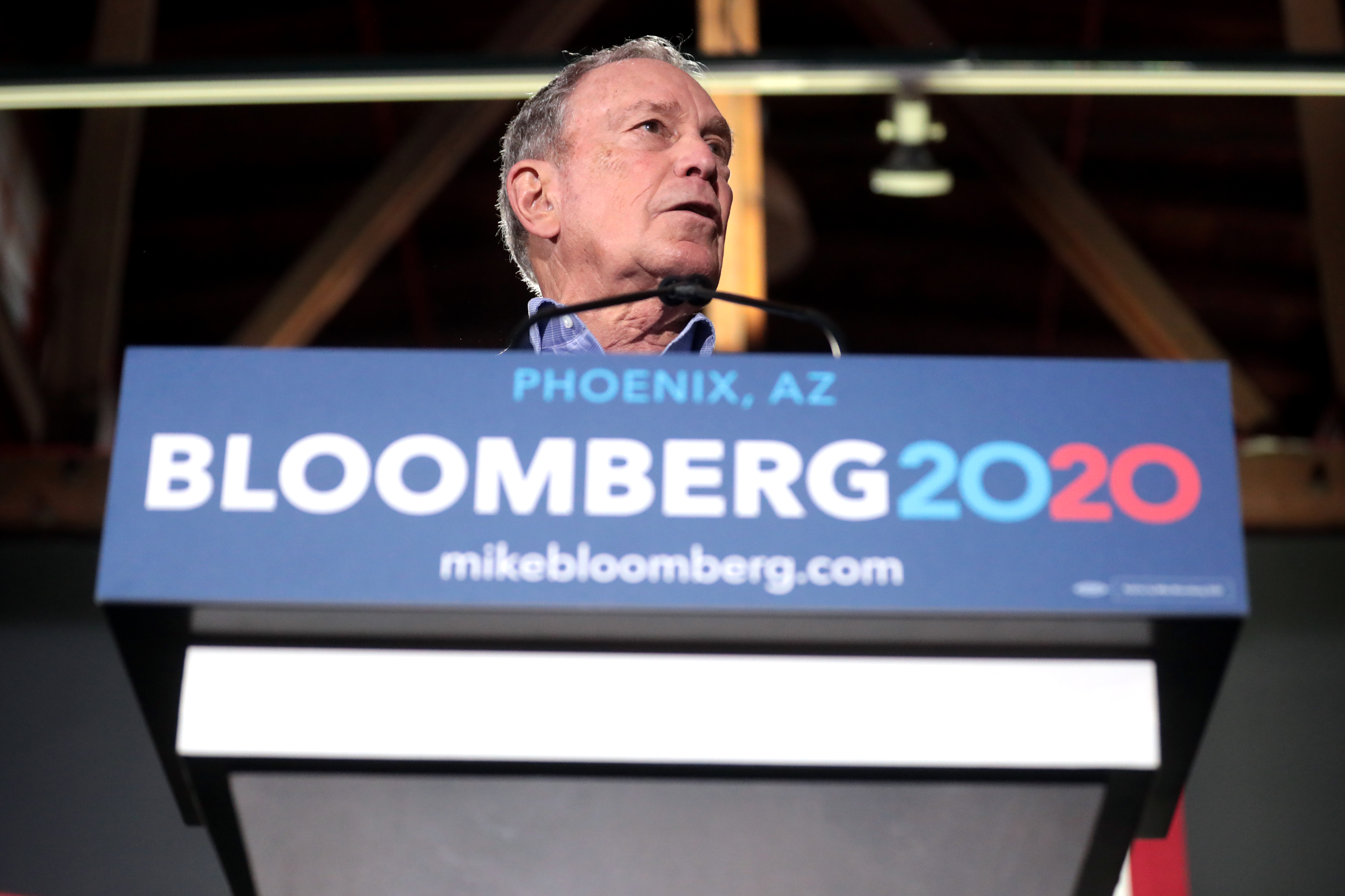 Former Mayor Mike Bloomberg speaking with supporters at a campaign rally at Warehouse 215 at Bentley Projects in Phoenix, Arizona.